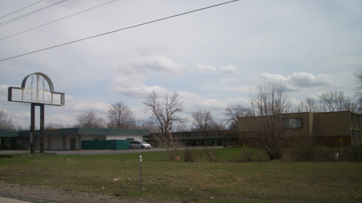 This is a former Holiday Inn on Bristol Road near Bishop Airport in Flint. According to a local historian, Keith Moon of The Who got kicked out of this motel during a birthday party, after he crashed his car into the swimming pool. The motel became a Days Inn in the mid-1980s, and in it last few years of life, Rodeway Inn took the westernmost guest wing. The entire complex abruptly closed in 2009, although I think the Rodeway part closed a bit later than the Days Inn part. I'm surprised that Days Inn never saw fit to remodel it; it's still very obviously a Holiday Inn.